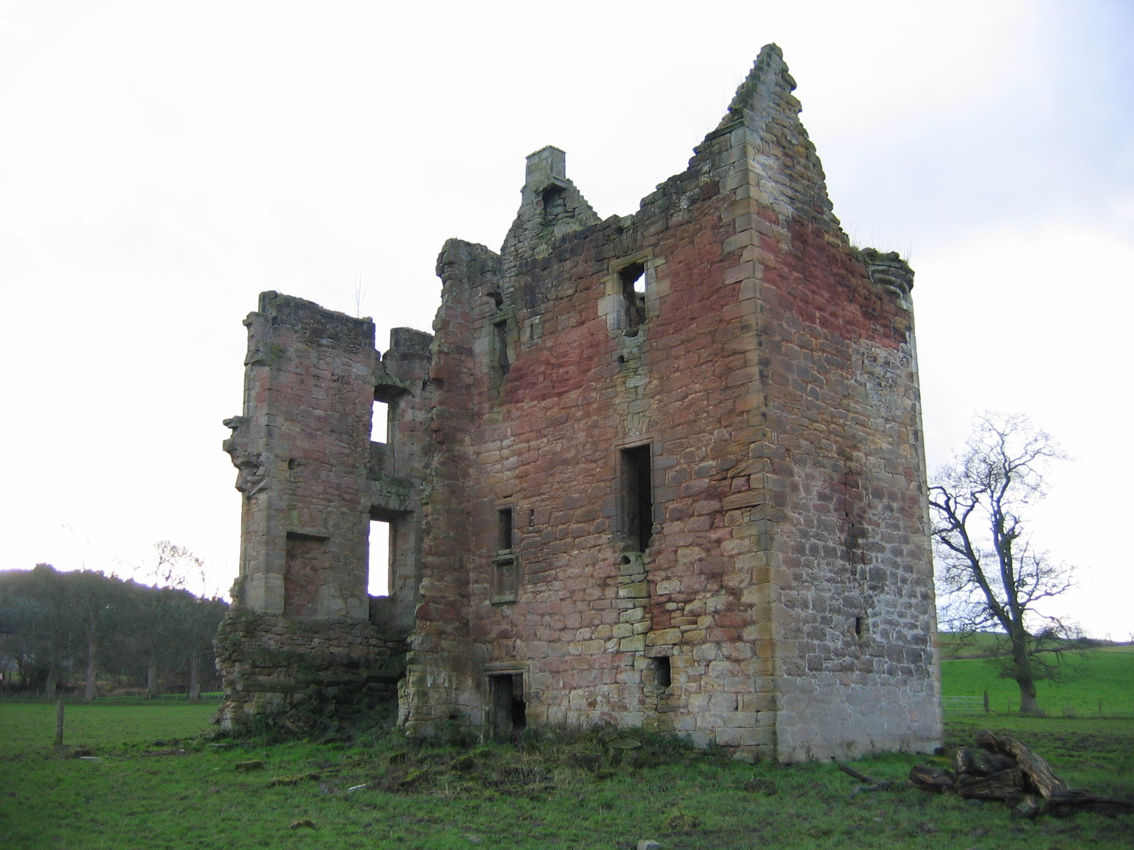 North-East view of Gilbertfield Tower, Cambuslang, Scotland.